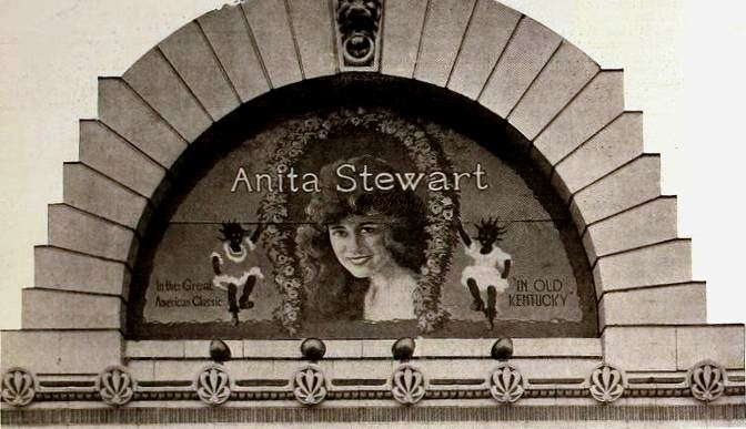 Rialto Theater in Omaha, Nebraska, arch above lobby when showing the film In Old Kentucky (1919), on page 3068 of the April 4, 1920 Motion Picture News.